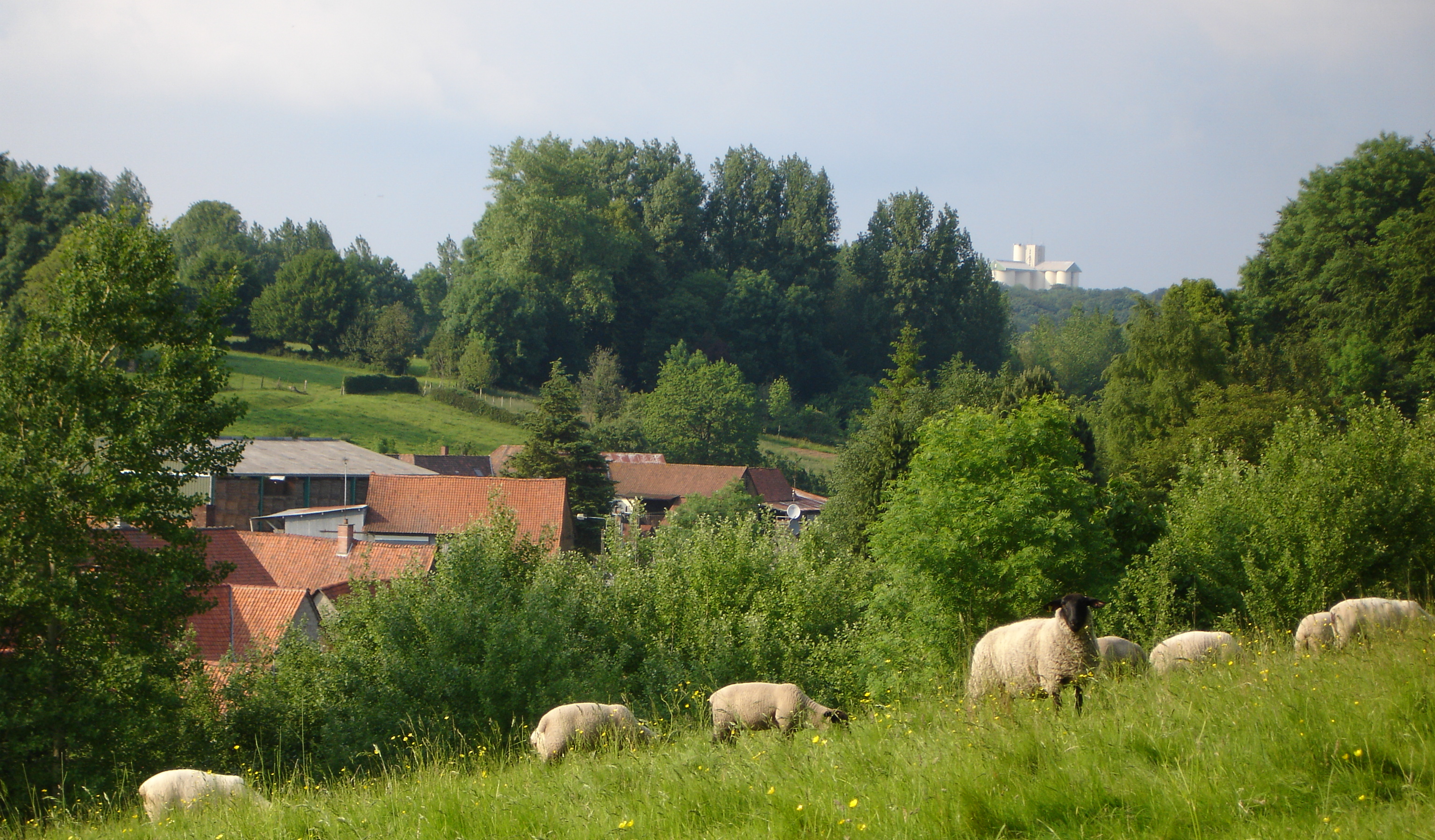 Center of Mouriez principal borough seen from the country lane called "of Douai".